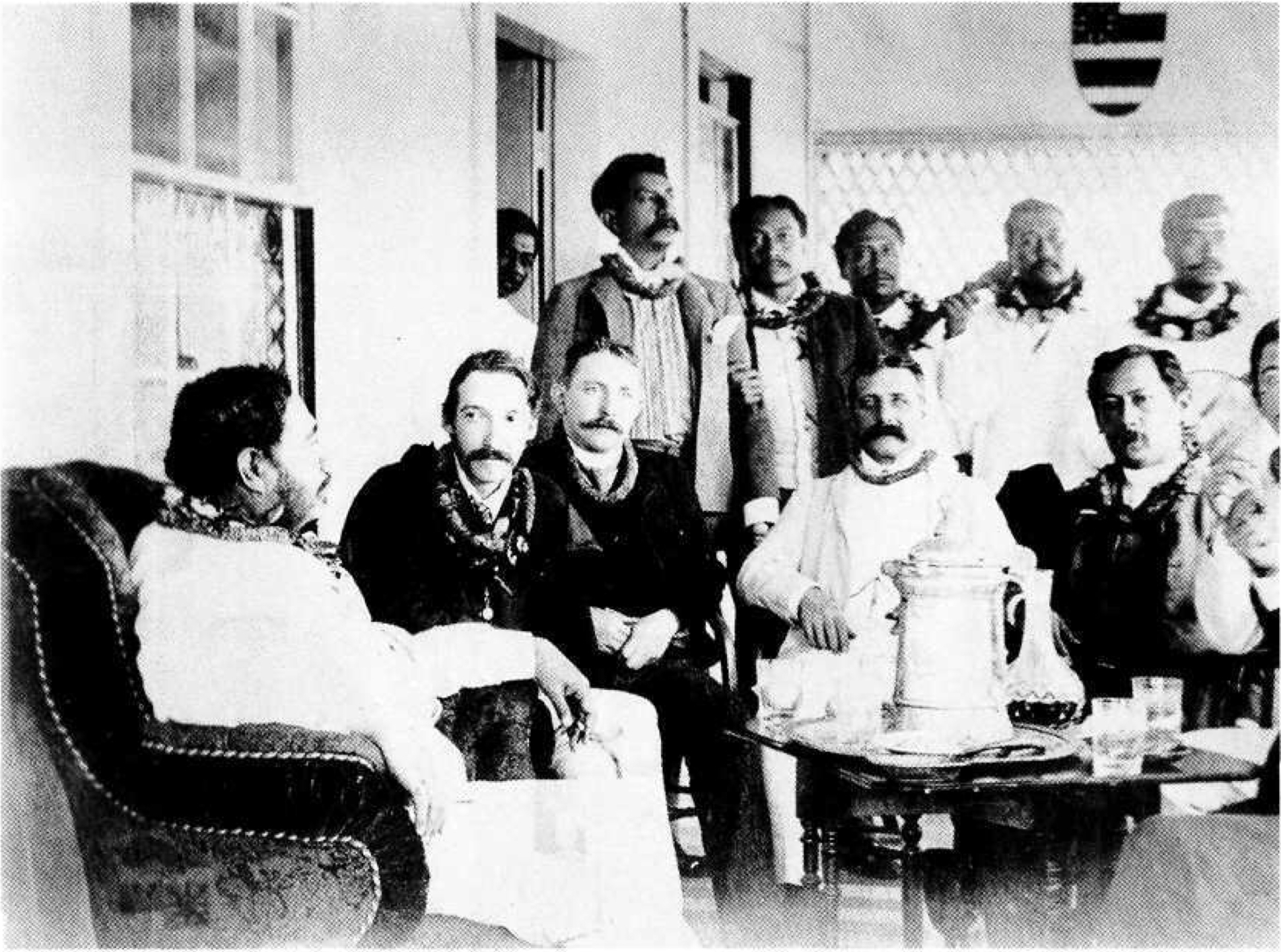 Photograph of King Kalakaua with Robert Louis Stevenson and "Kalakaua's Singing Boys", his own personal headed choir.